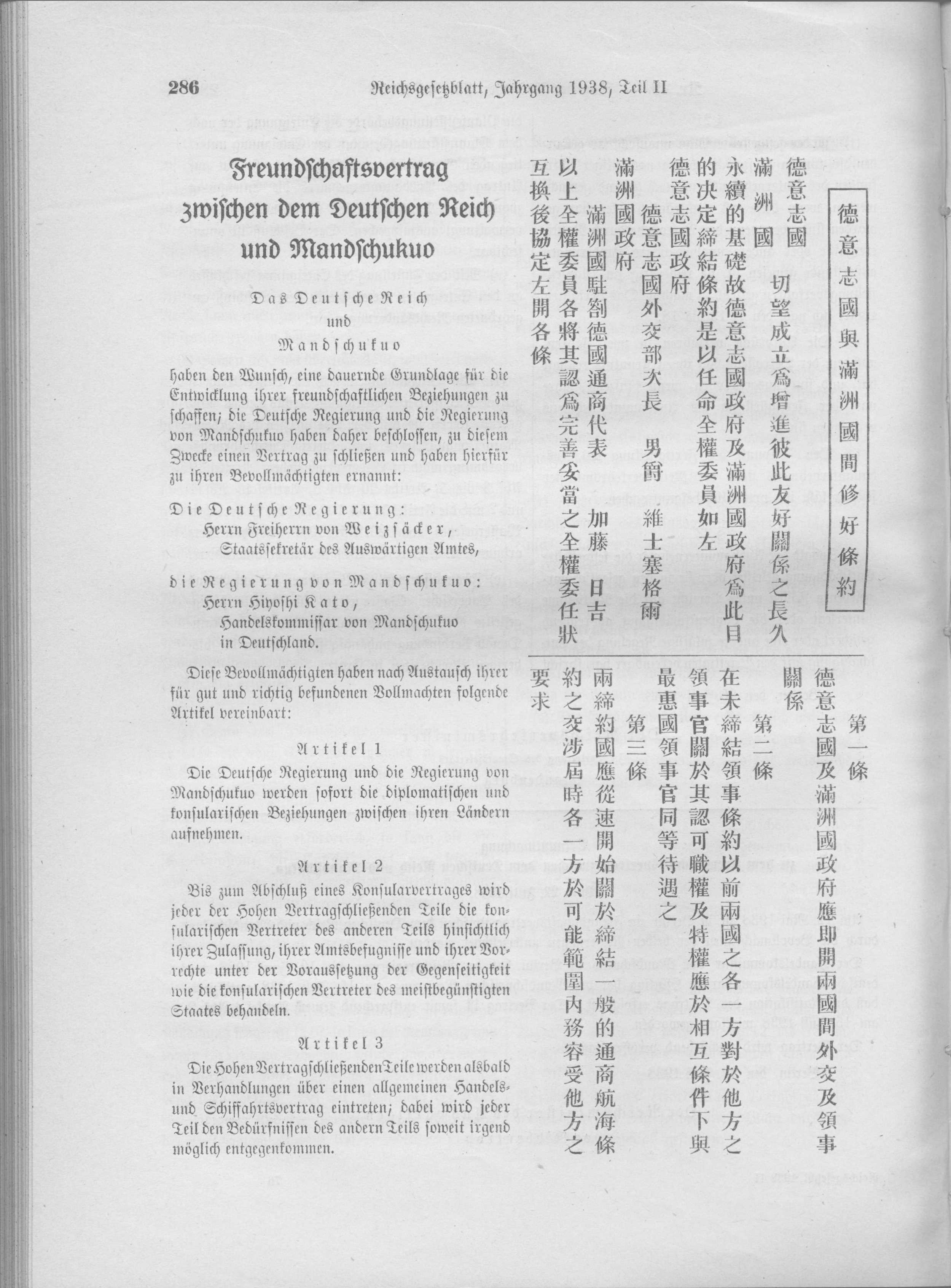 Scan from the Imperial Law Gazette of Germany, 1938, part 2